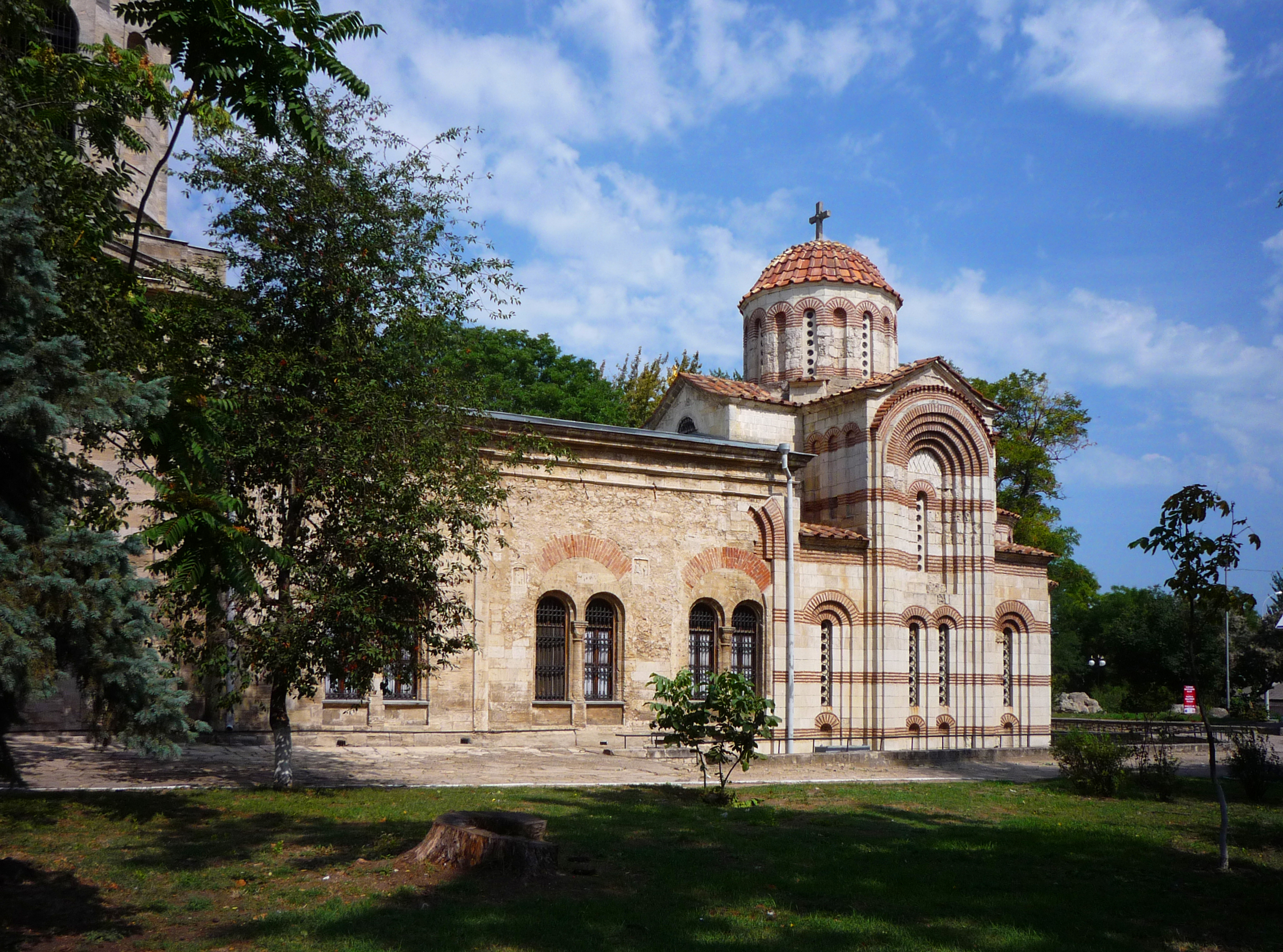 John the Forerunner church in Kerch, Ukraine.